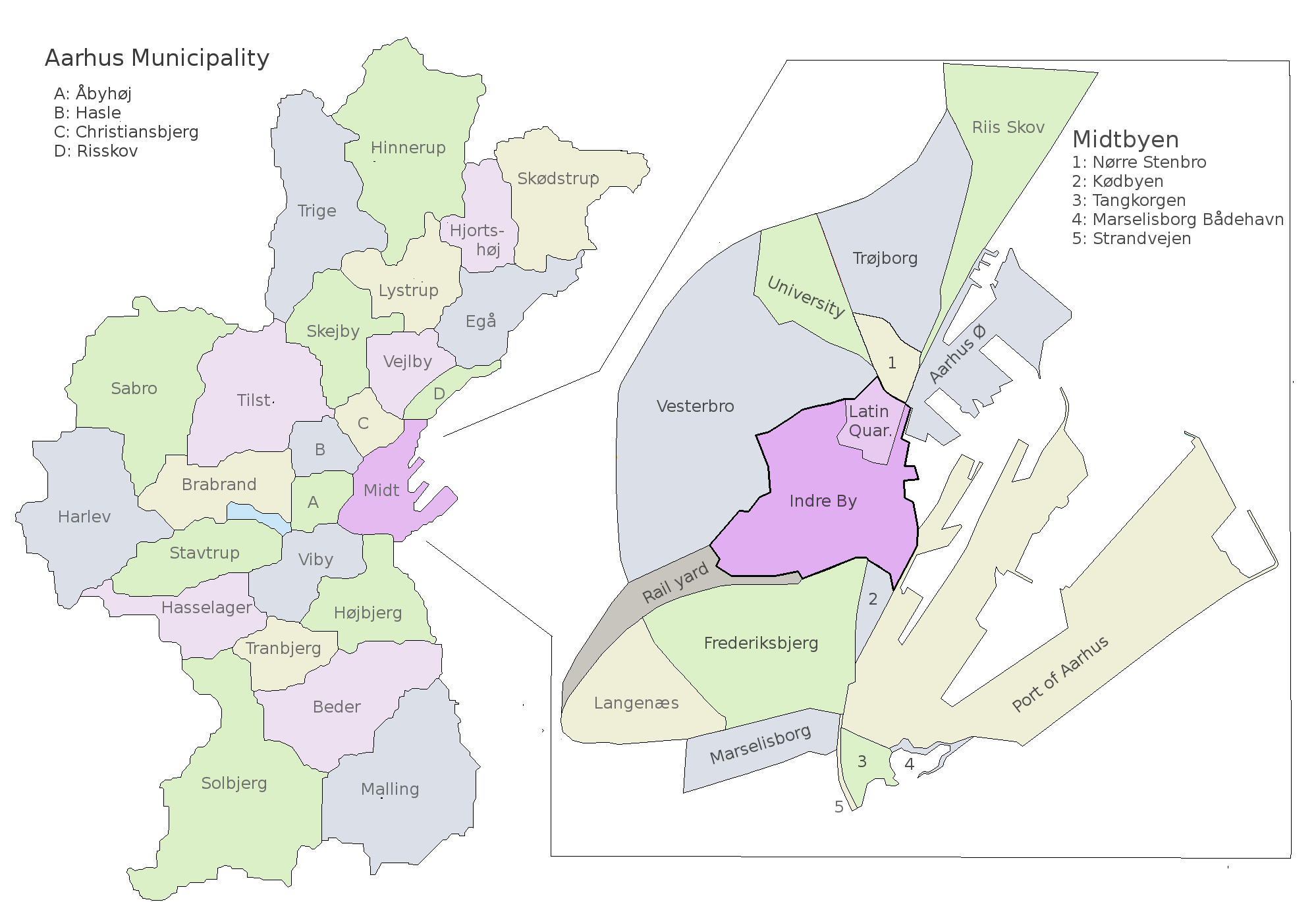 MAp of Aarhus municipality with districts